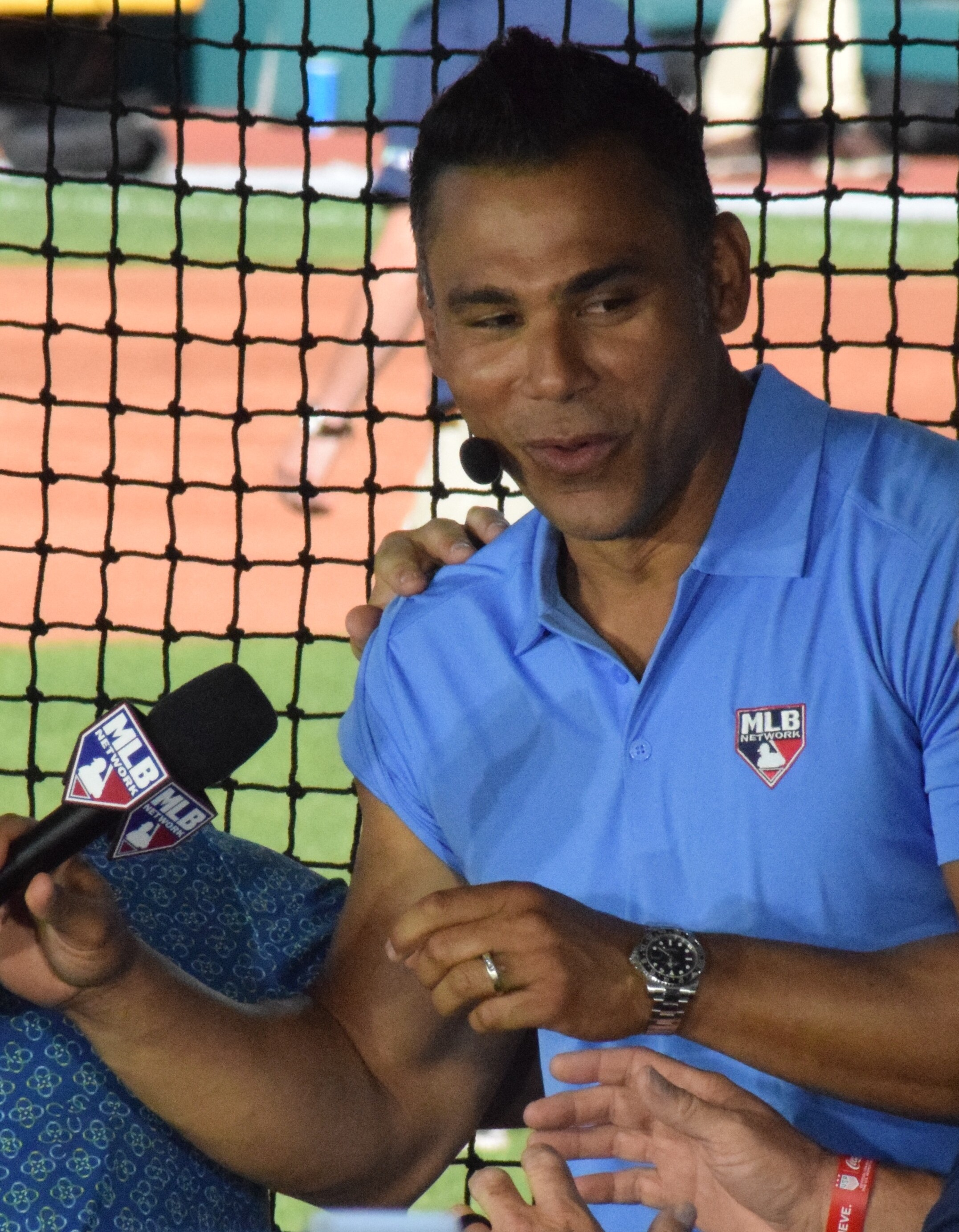 Carlos Pena broadcasting all star game in 2019